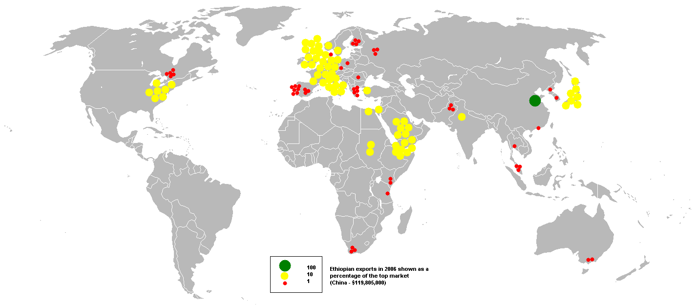 This bubble map shows the global distribution of Ethiopian exports in 2006 as a percentage of the top market (China - $119,805,000). This map is consistent with incomplete set of data too as long as the top producer is known. It resolves the accessibility issues faced by colour-coded maps that may not be properly rendered in old computer screens. Data was extracted on 18th September 2007 from Based on :Image:BlankMap-World.png